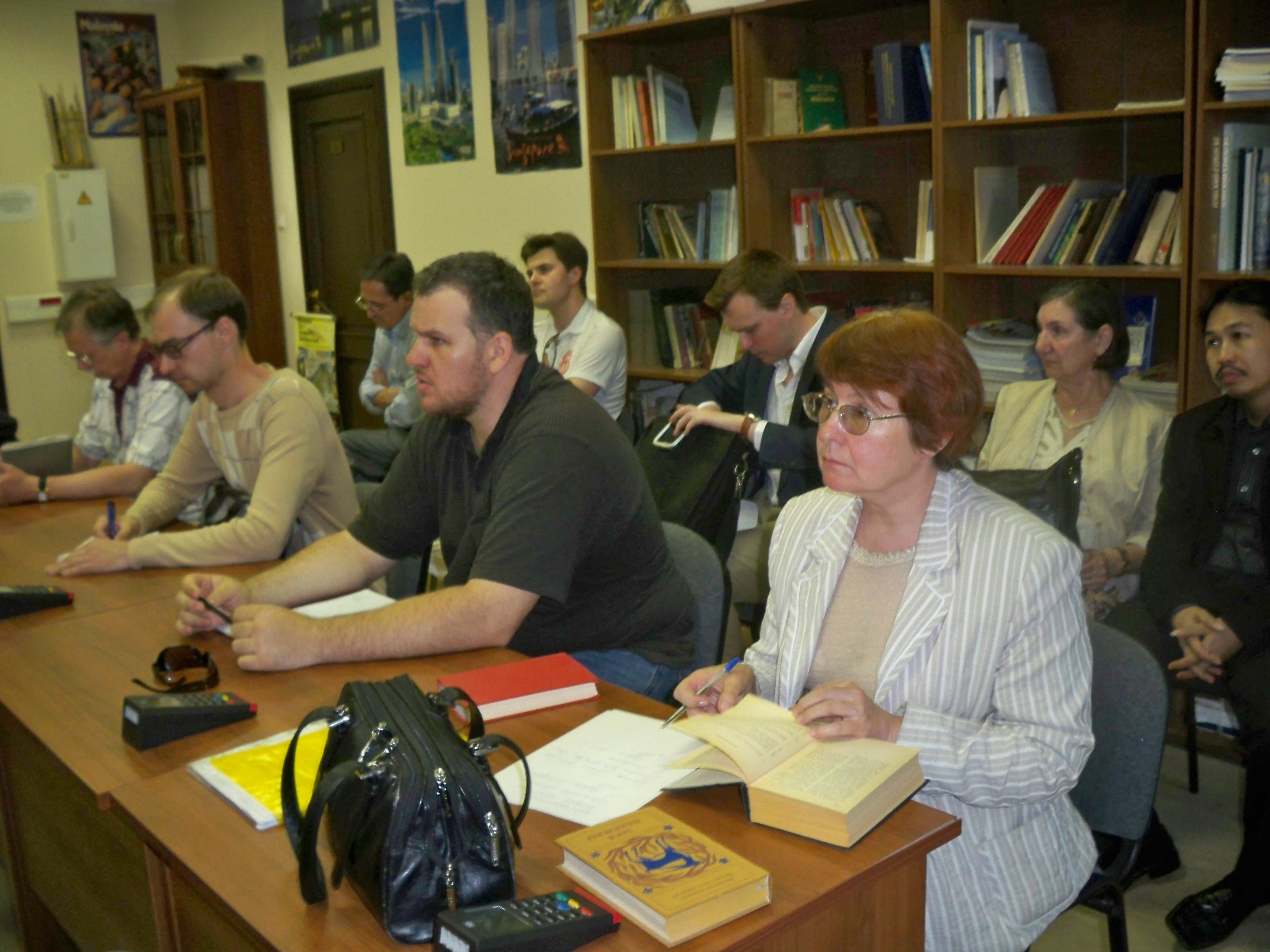 Malay-Indonesian Readings (Nusantara). 6.6.2011. From personal collection of Pogadaev V.A.